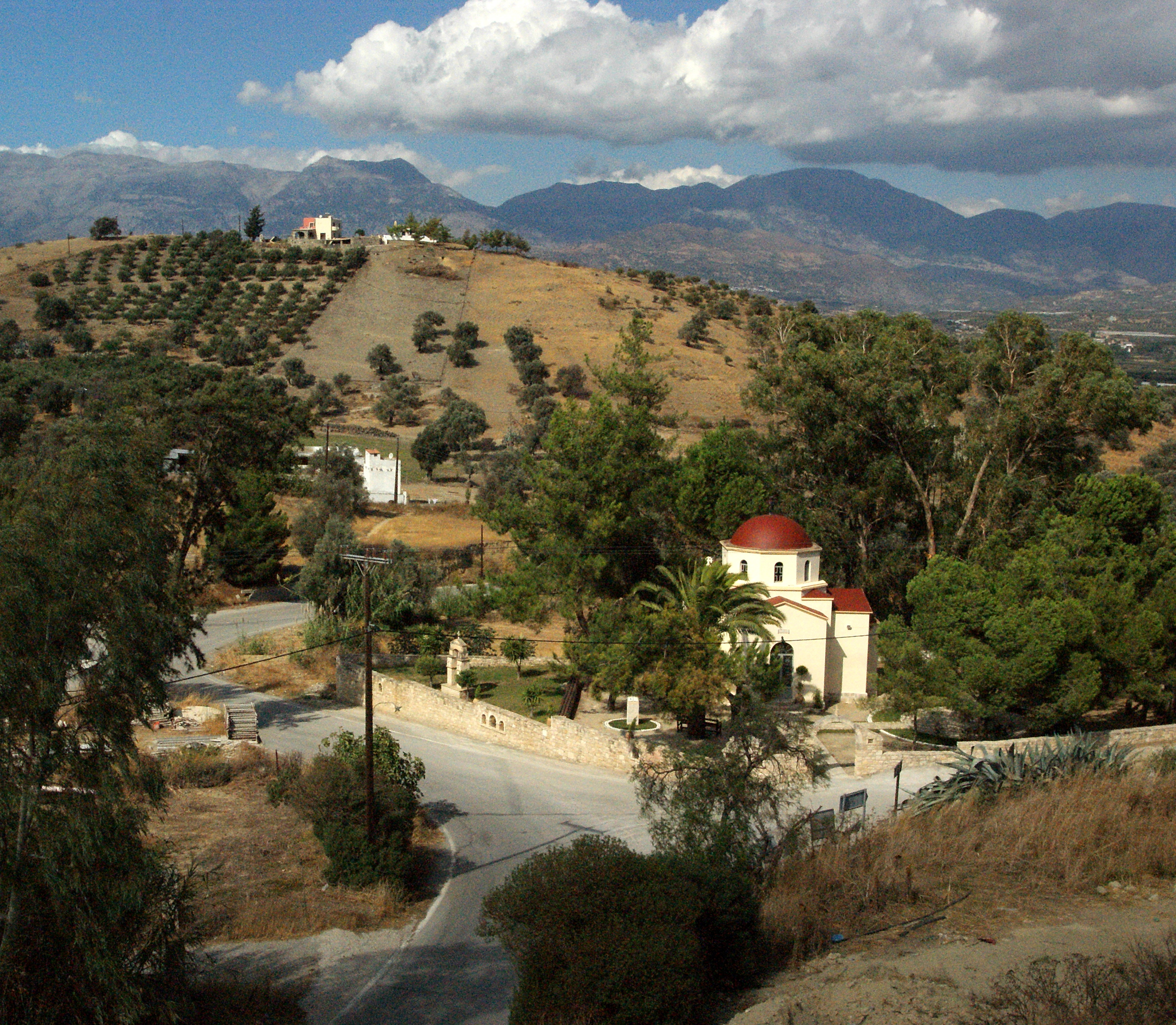 Sivas in the region of Tymbaki, Crete. View to the south: Church on the street to Petrokefala, in the background Psiloritis mountains.